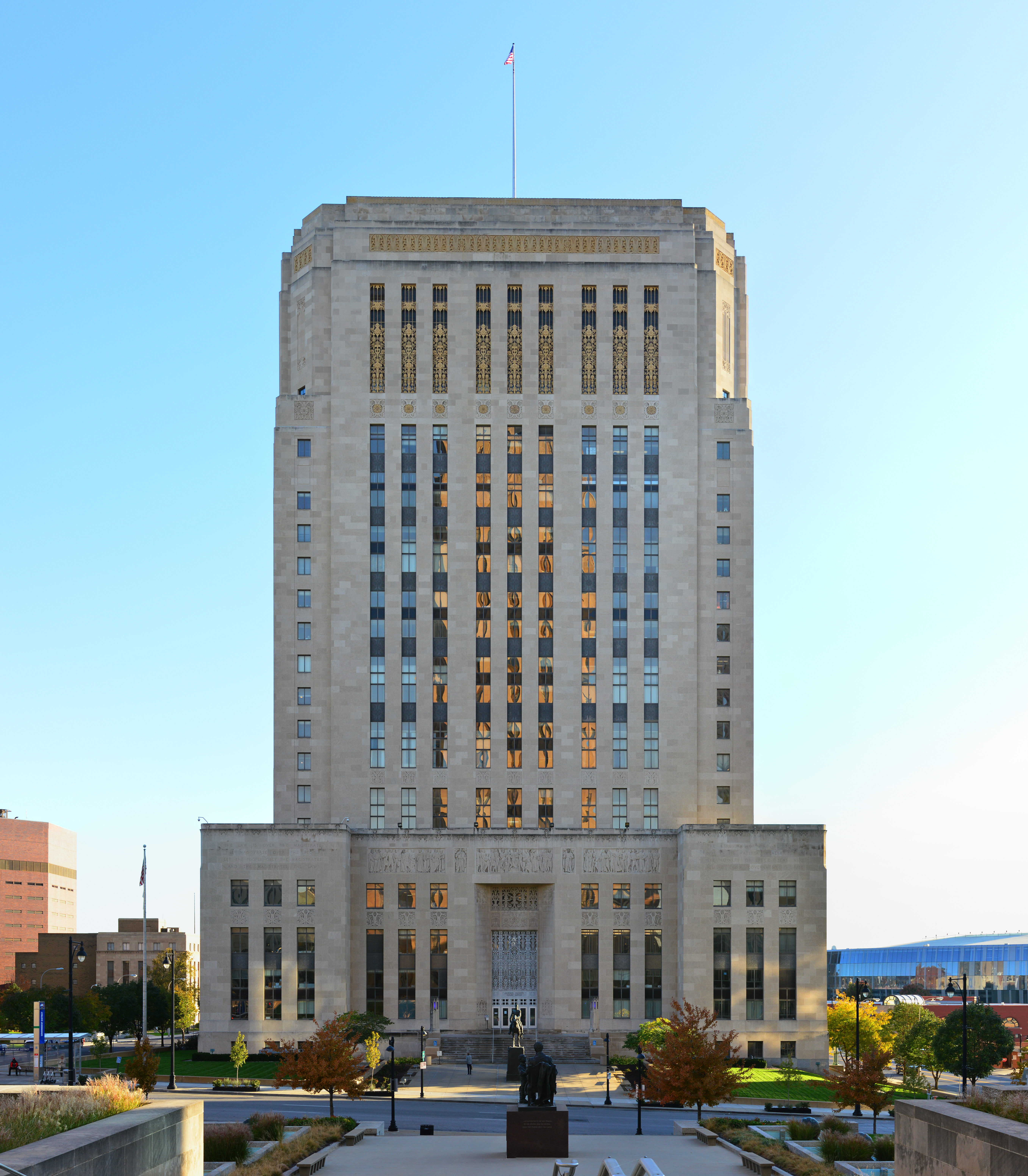 Jackson County 16th Circuit courthouse in Kansas City, Missouri